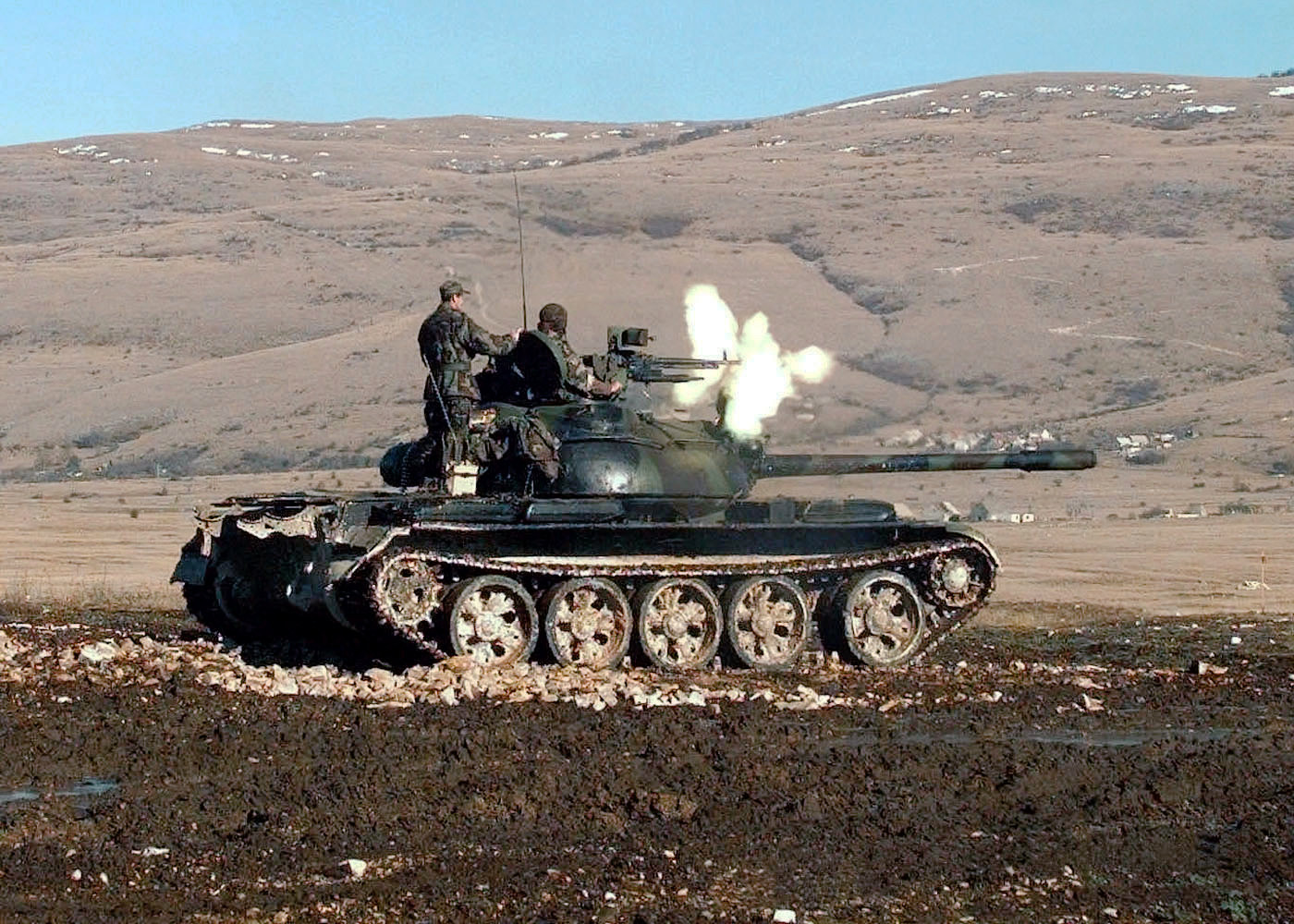 Members of the Croatian Defense Council (HVO) Army, 2nd Guard Brigade, fire the 12.7mm machine gun, mounted on a T-55 main battle tank during a three-day exercise when the HVO Army was granted use of Barbara Range for the first time in 18 months.